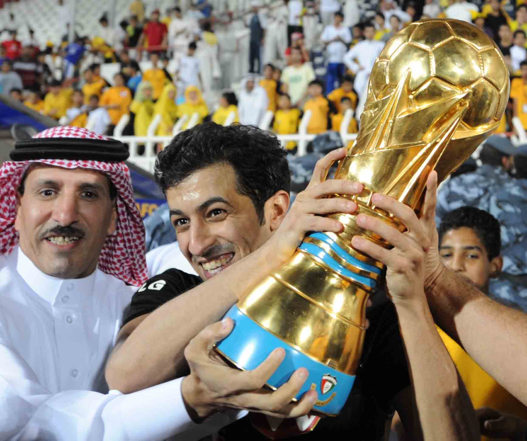 Ibrahim Al-Frayan in one of the Champions Club Qadsia in Kuwait.